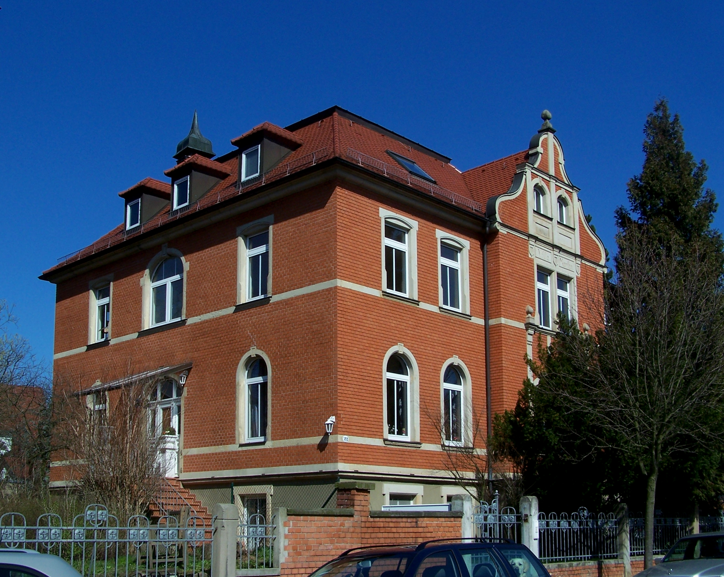 Villa Martha